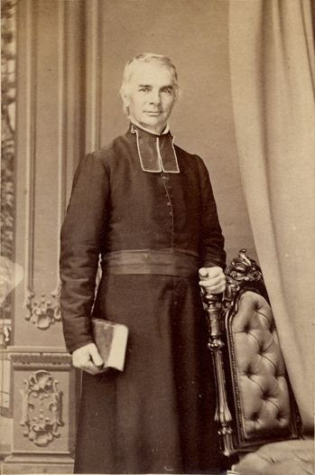 Joseph-David Déziel,Roman Catholic parish priest